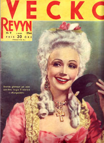 Swedish actress Inga Tidblad (1901-1975) on magazine cover for 'Veco Revyn', nr 9, 1944. Publicity photo 1949s, photographer unknown.